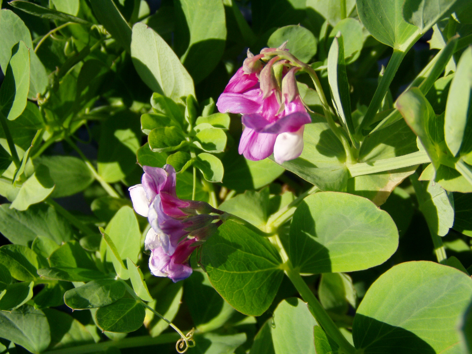 Beach pea flowers (Lathyrus japonicus). Photo taken by Danielle Langlois in July 2005 on a shingle beach at Pointe-à-la-Frégate, Province of Québec, Canada.